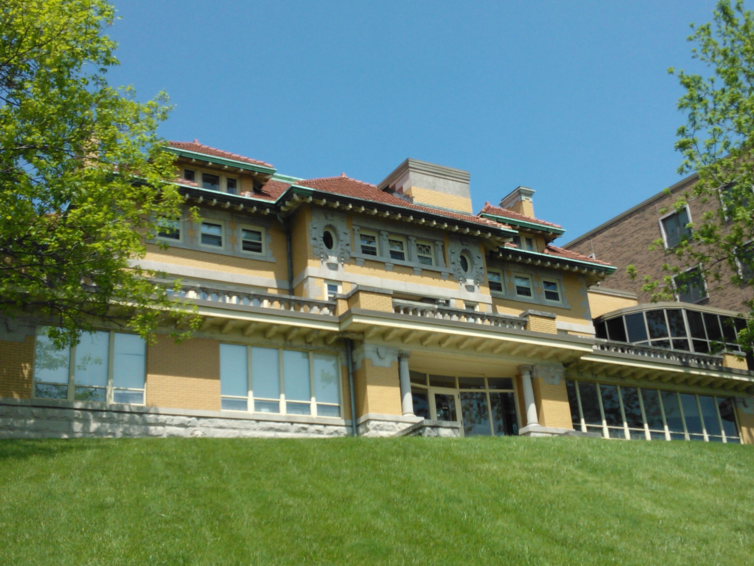 Home built by Henry Kahl in Davenport, Iowa. It became the Kahl Home for the Aged and Infirm by the Carmelite Sisters for the Aged and Infirm. It is listed on the National Register of Historic Places.